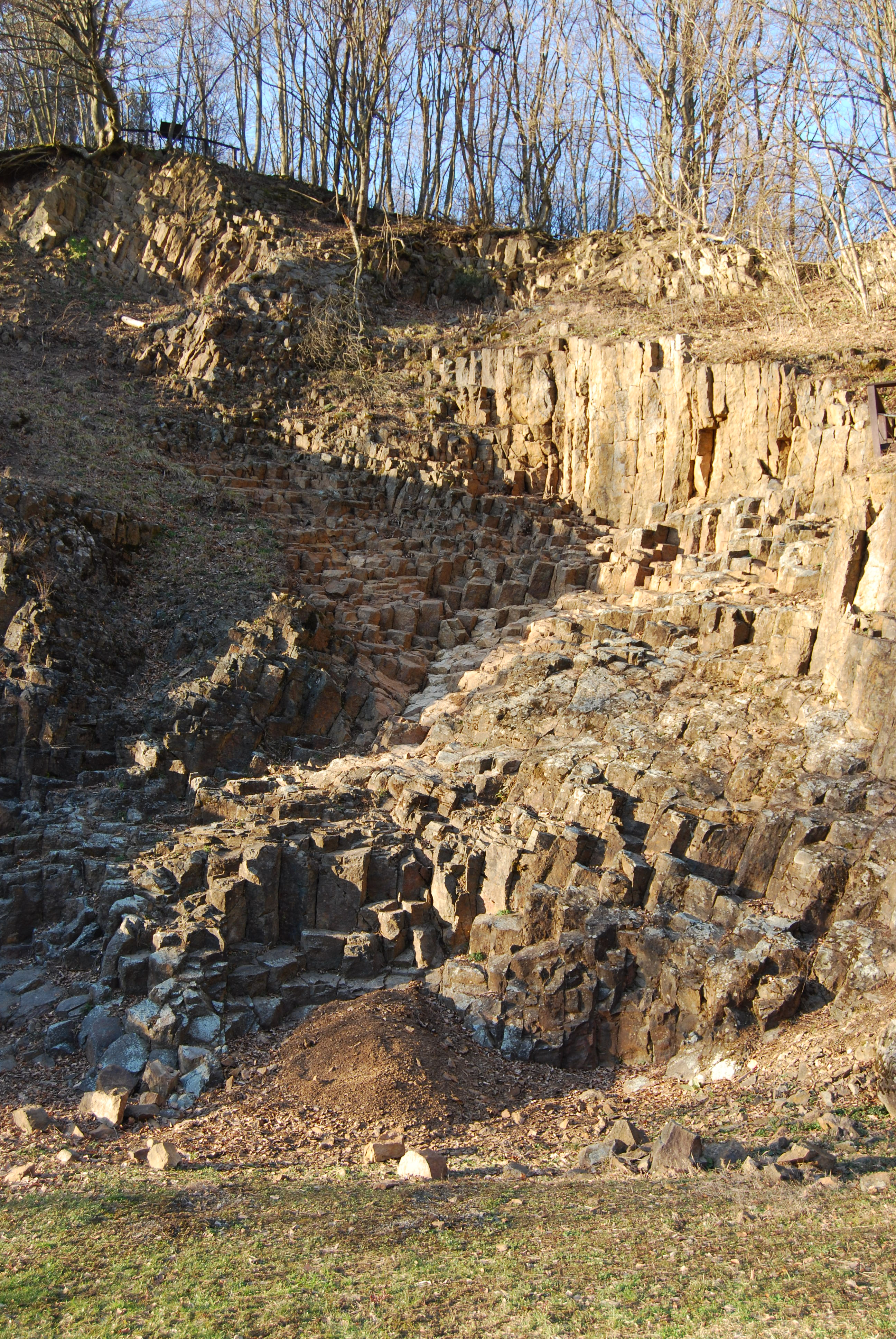 Geological monument Rupnica with columnar basalts near village Voćin, Croatia - Google Maps - Google Earth